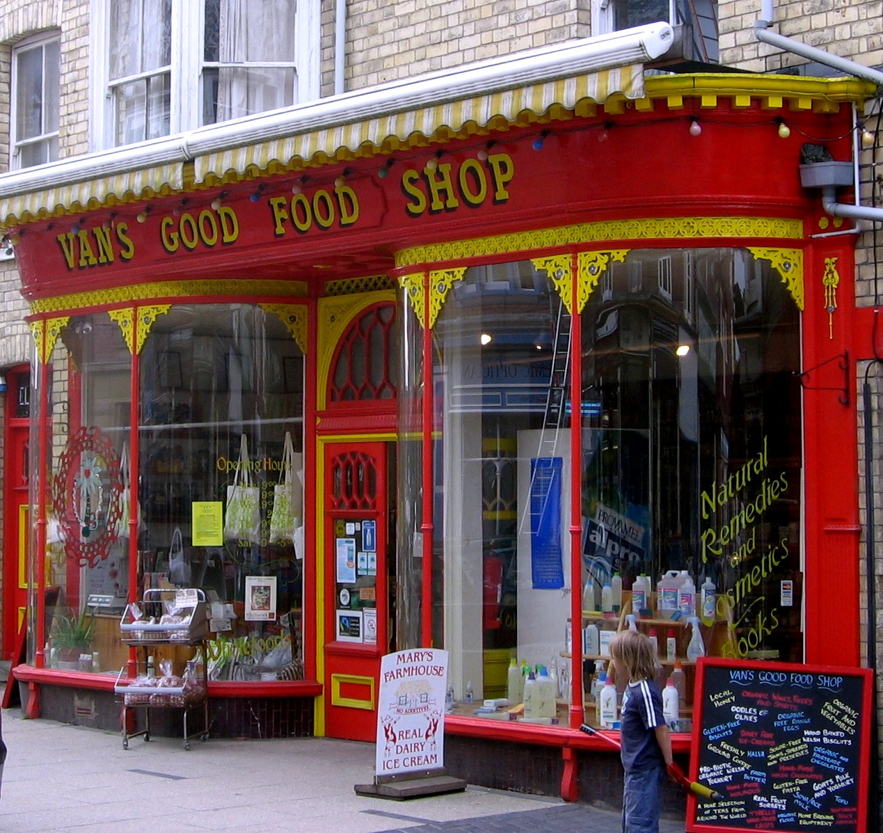 frontage of Van's wholefood shop in Middleton St, Llandrindod Wells